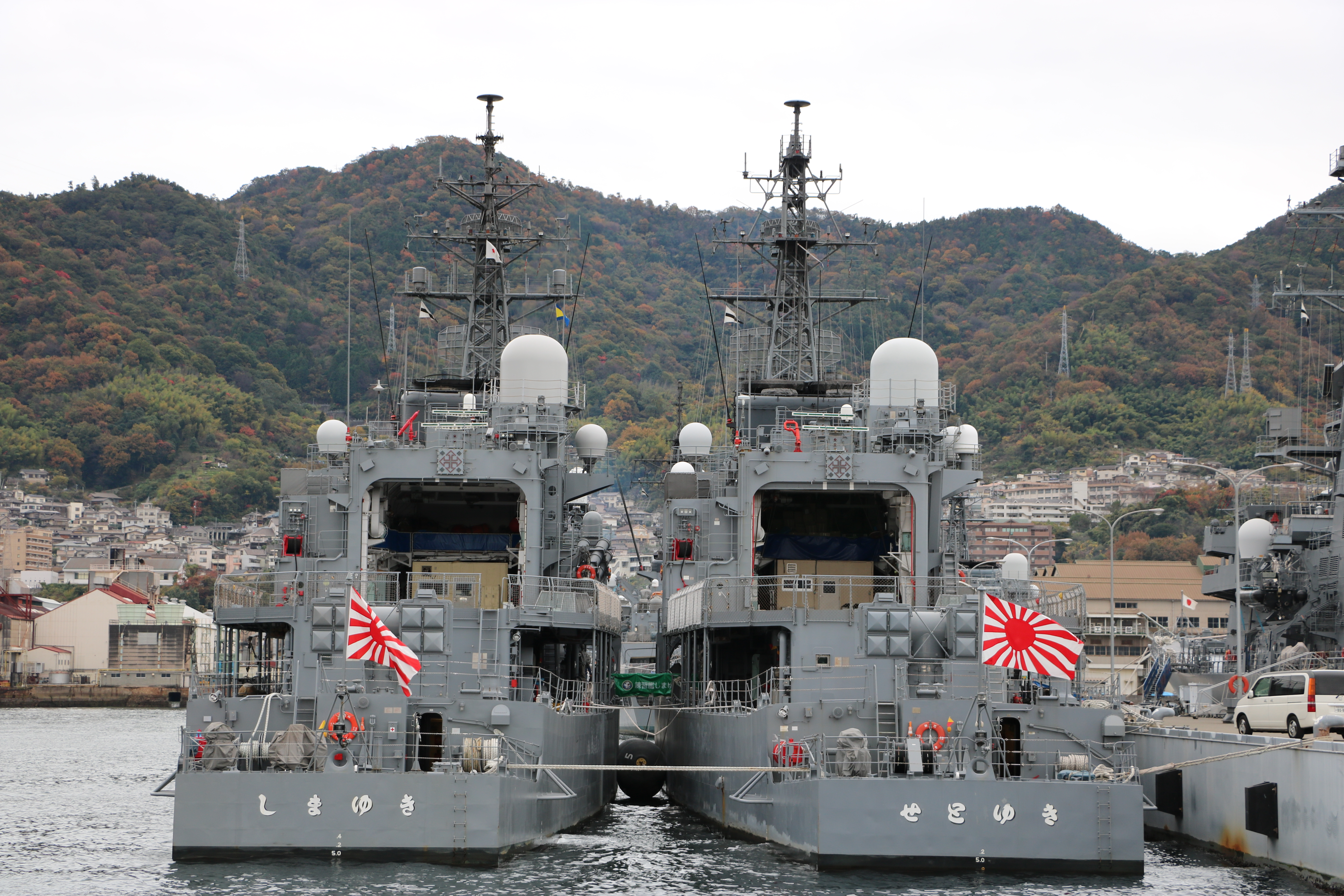 JS Shimayuki (TV-3513) and JS Setoyuki (TV-3518) moored at Berth-E, Kure. November 2016. Canon EOS 8000D